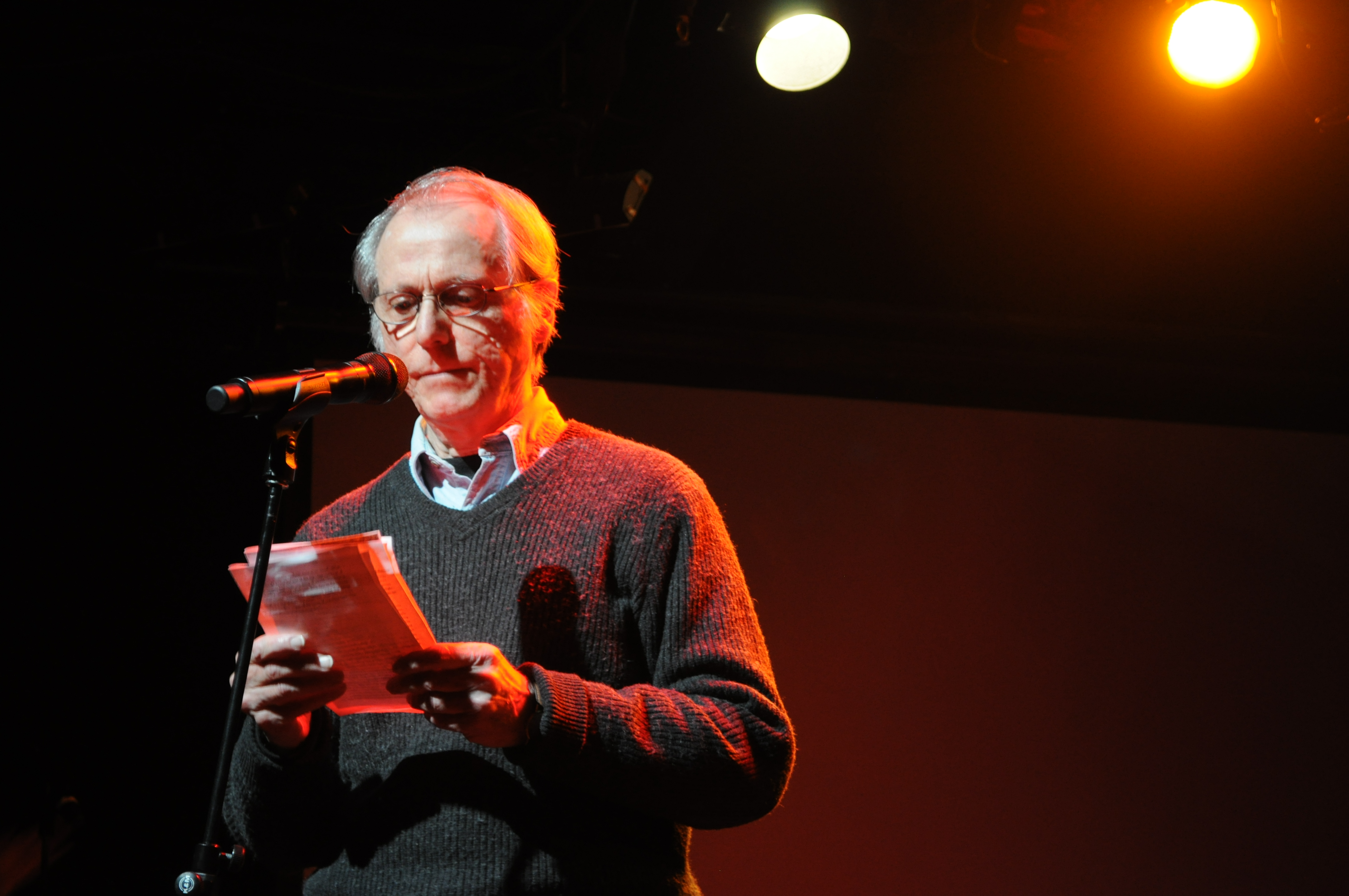 Don DeLillo in New York City, 2011